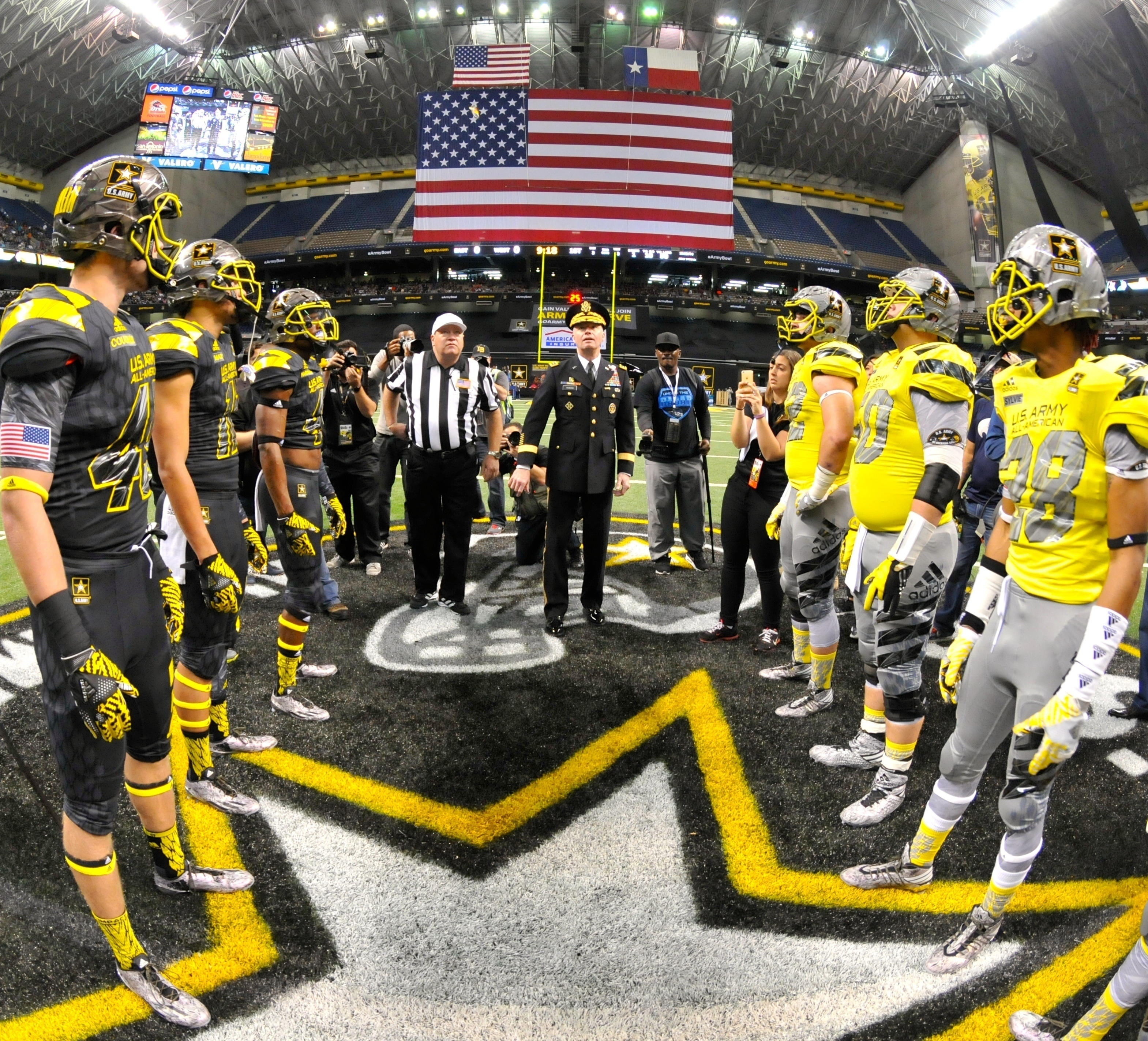 U.S. Army Gen. David G. Perkins, the commander of U.S. Army Training and Doctorate Command, flips a coin to determine which team will receive the ball first during the U.S. Army All-American Bowl at the Alamodome, in San Antonio, Jan. 9, 2016. Each year, the All-American Bowl selects 90 of the nation's top high school football stars, along with 125 top high school marching band musicians and color guard members.